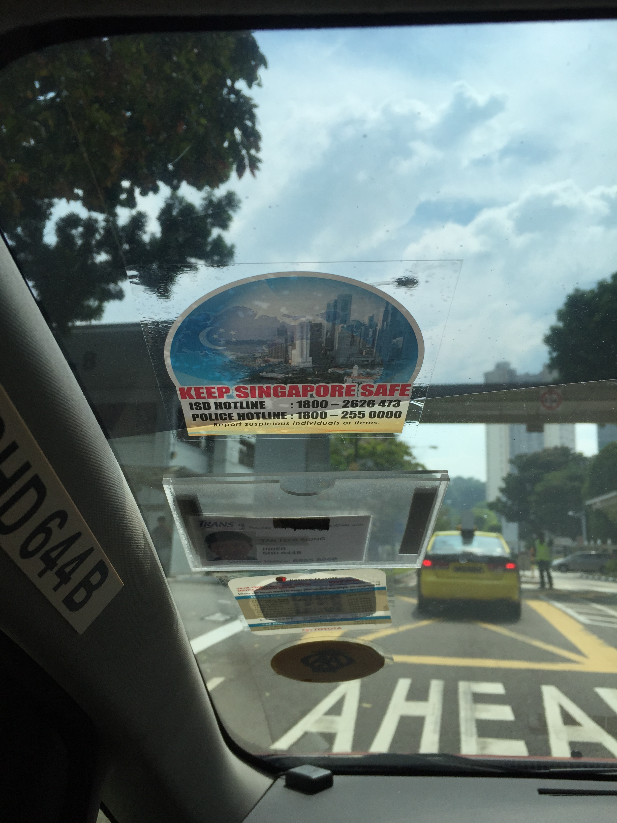 A hotline sticker inside a Toyota Wish (AE10) Trans-Cab for the public to either call the police or the Internal Security Department.